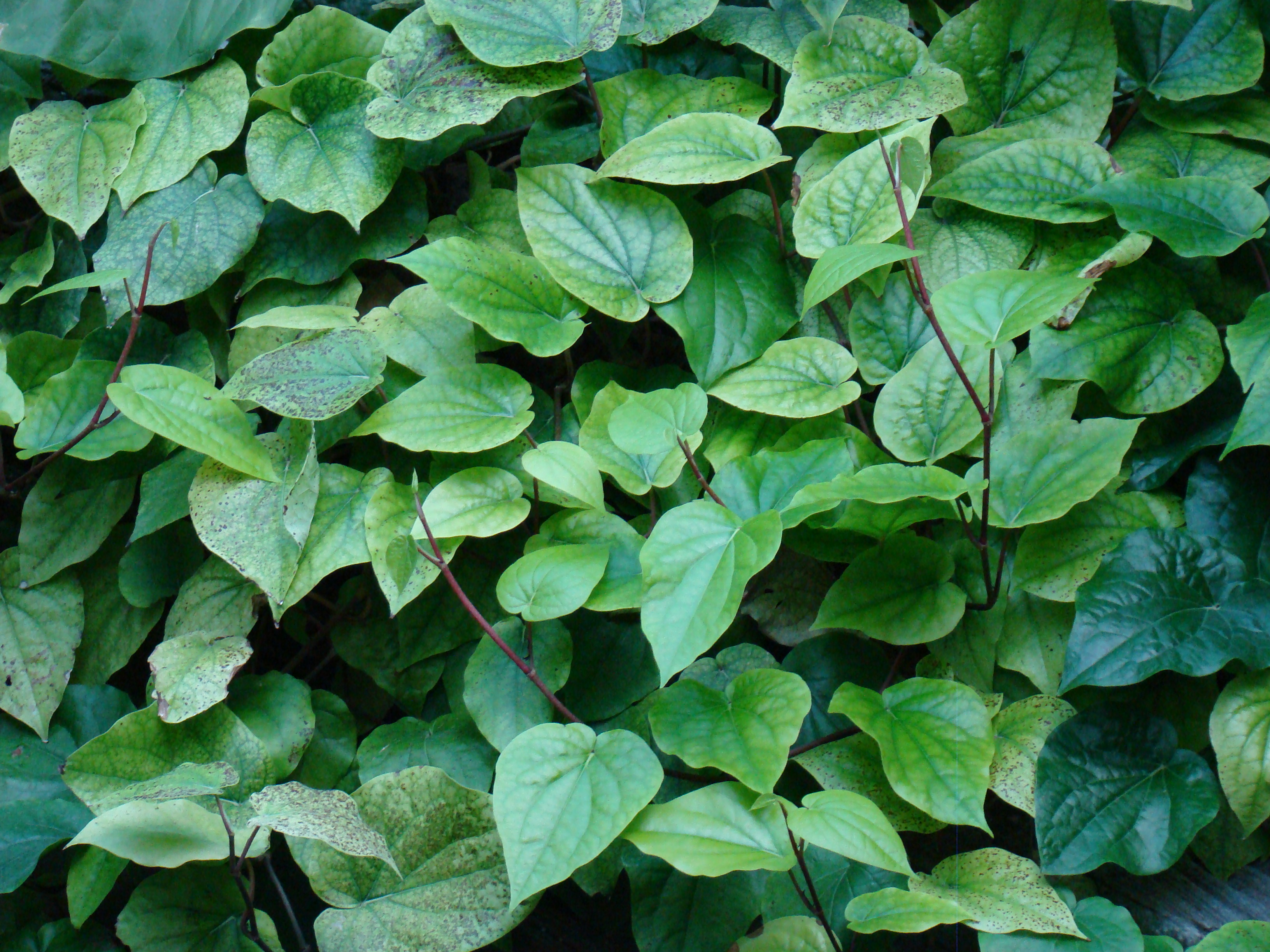 Close-up of the Betel Leaf vine (Piper betle / Piperaceae) with an extensive, spreading root system has grown in shallow water without any soil and in a controlled environment in the Everglades Atrium of the Gaylord Palms Resort & Convention Center, Kissimmee, Florida.